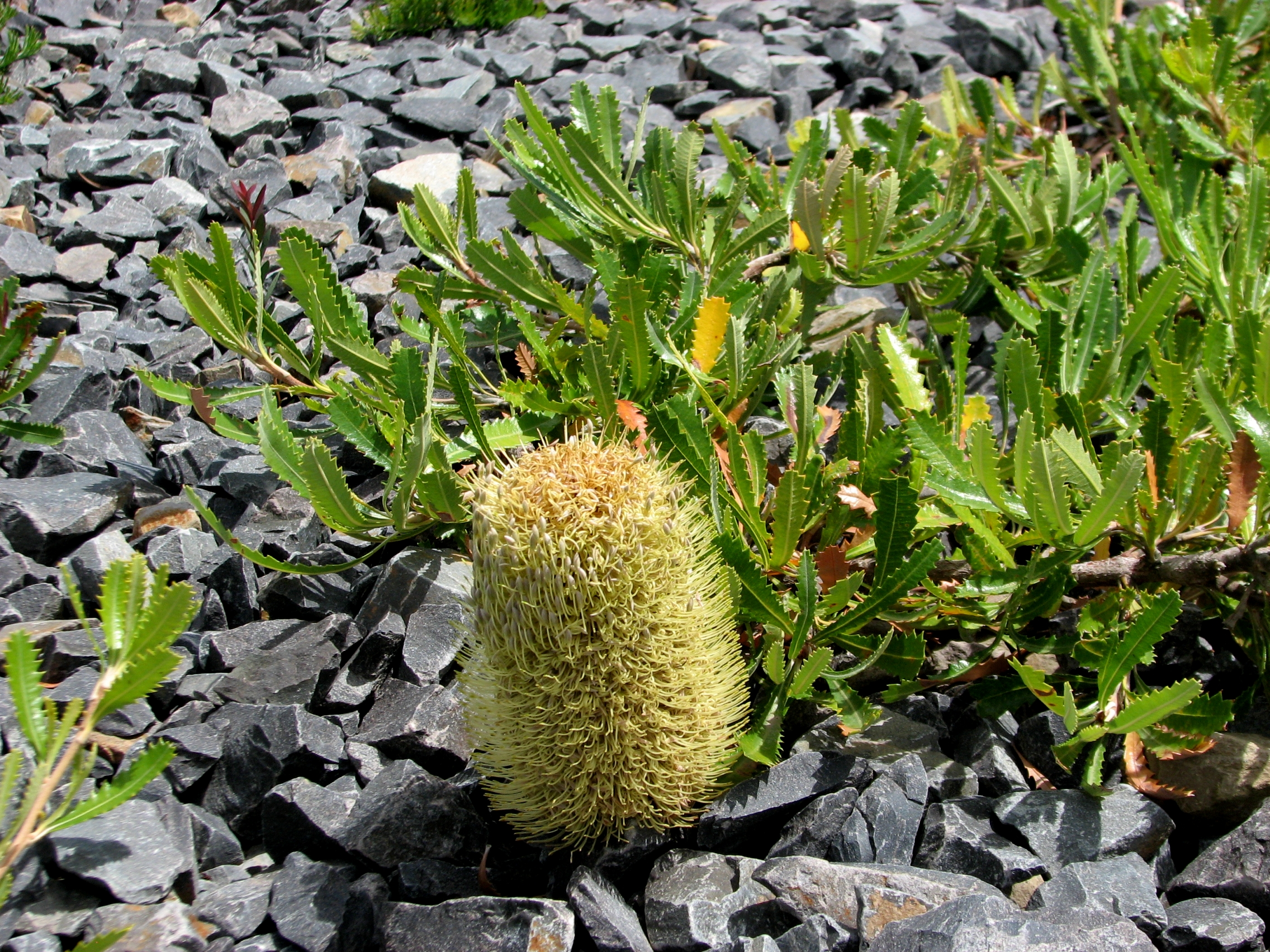 Banksia serrata 'Pygmy Possum' (cultivated, labelled) , Royal Botanic Gardens Cranbourne, Victoria, Australia